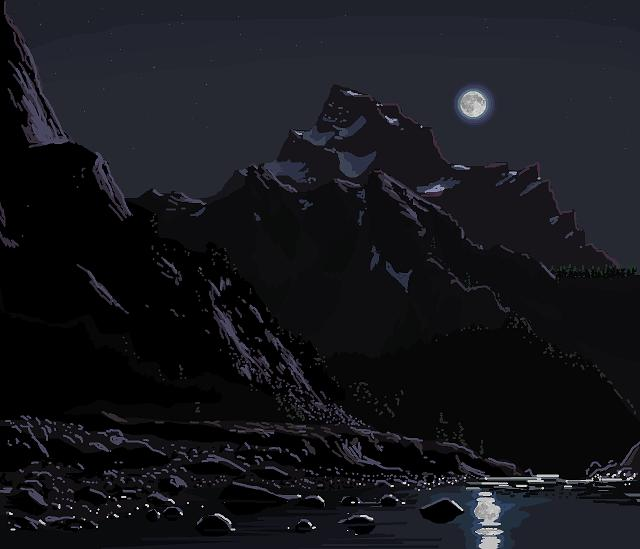 This is a Drawing of Del Campo Peak from Vesper Lake, Created by my Brother Michael Lewis.